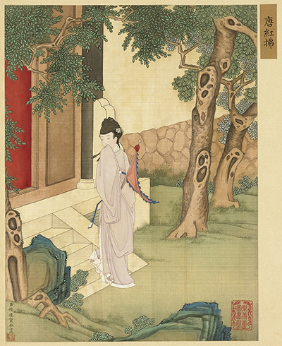 This painting depicts Lady Hongfu (紅拂).